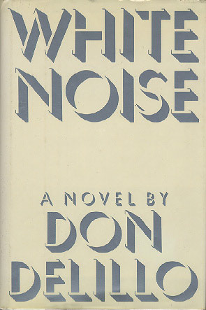 Cover to White Noise by Don DeLillo